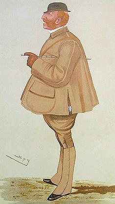 Caricature of Major Lord Henry Arthur George Somerset (1851–1926). Caption read "Podge".